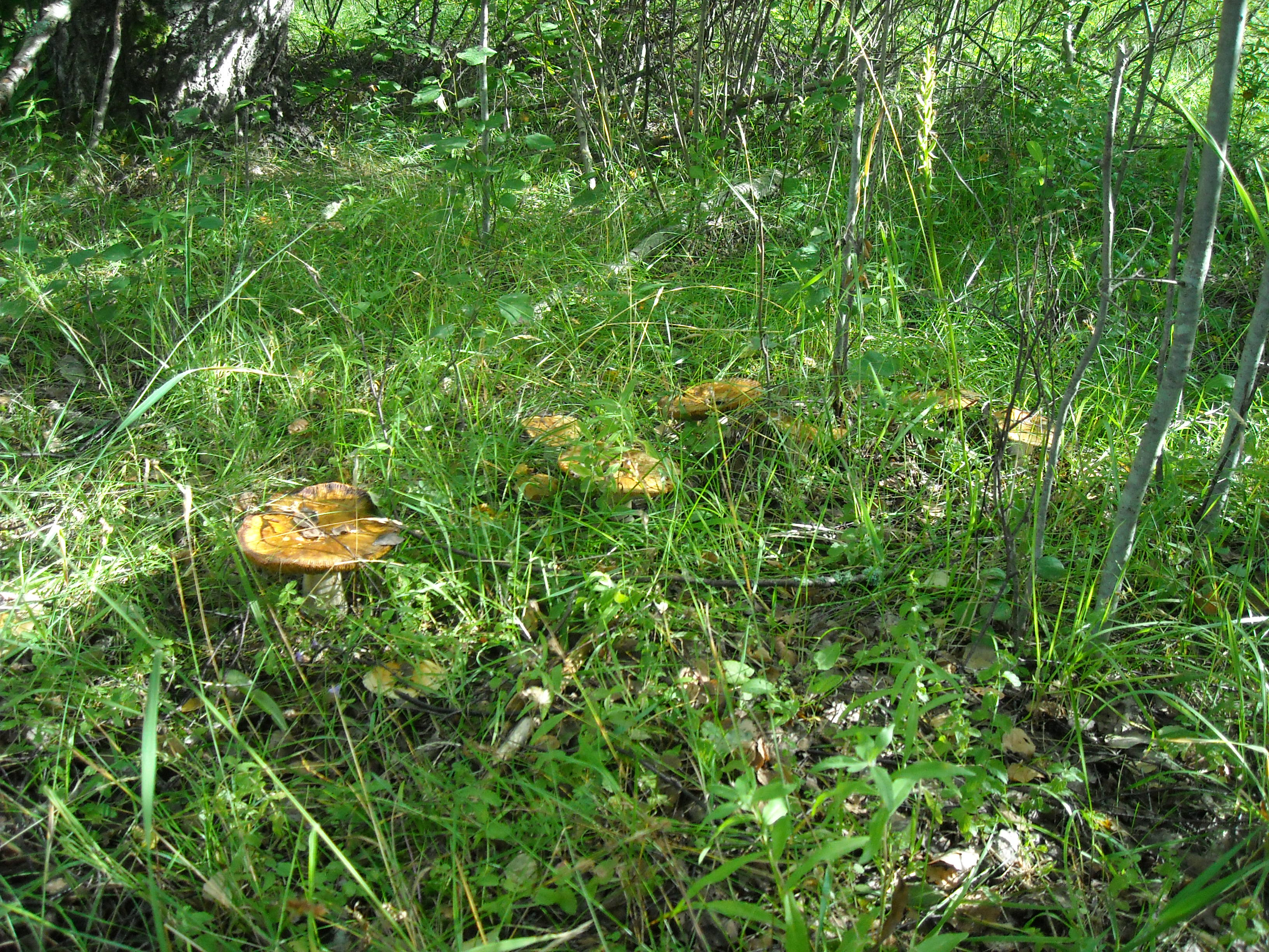 Mushroom Russula foetens